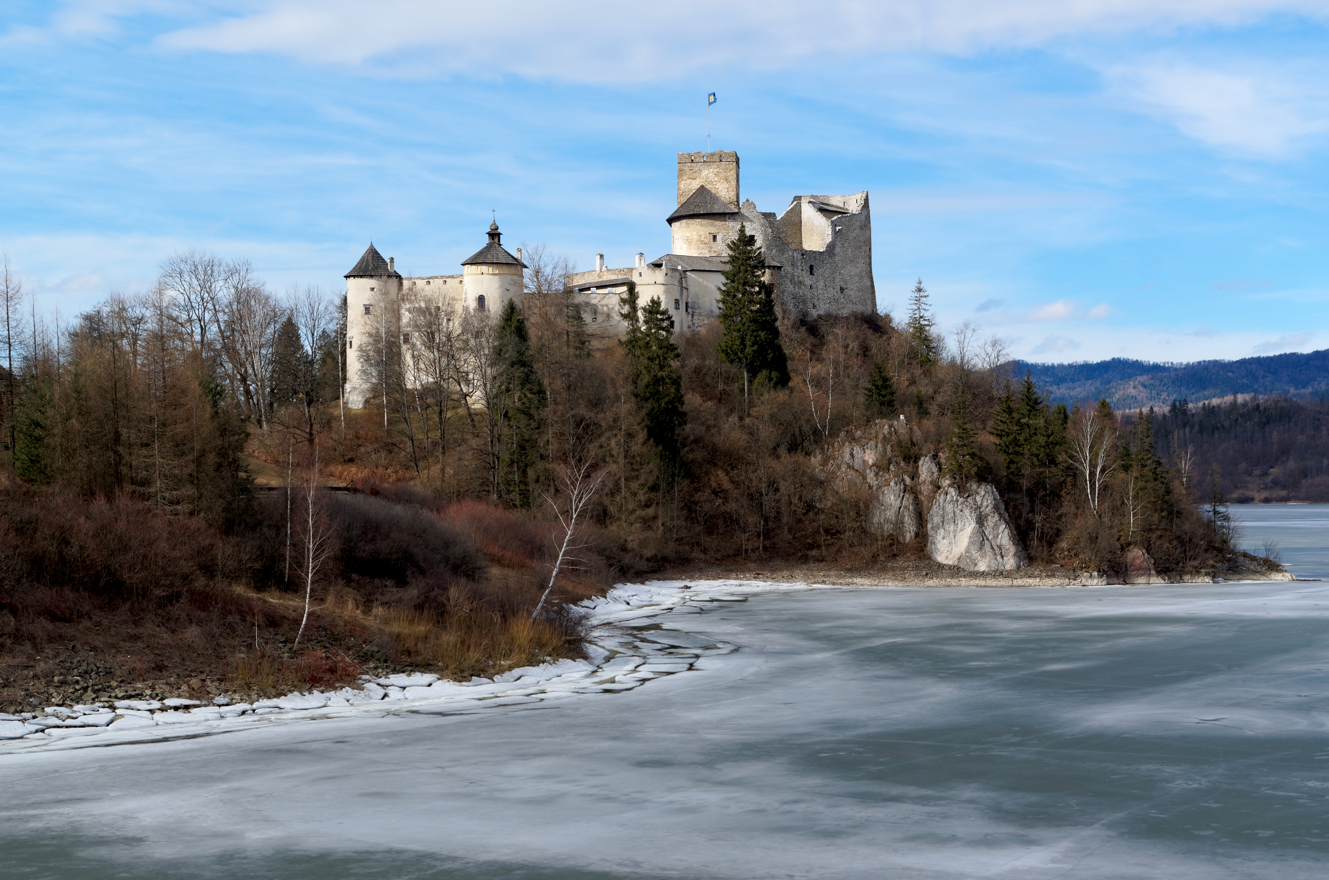 Niedzica Castle over the frozen Czorsztyn Lake, Poland